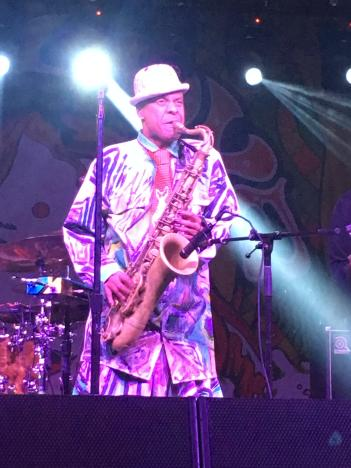 Angelo Moore performing with Fishbone in February 2019.